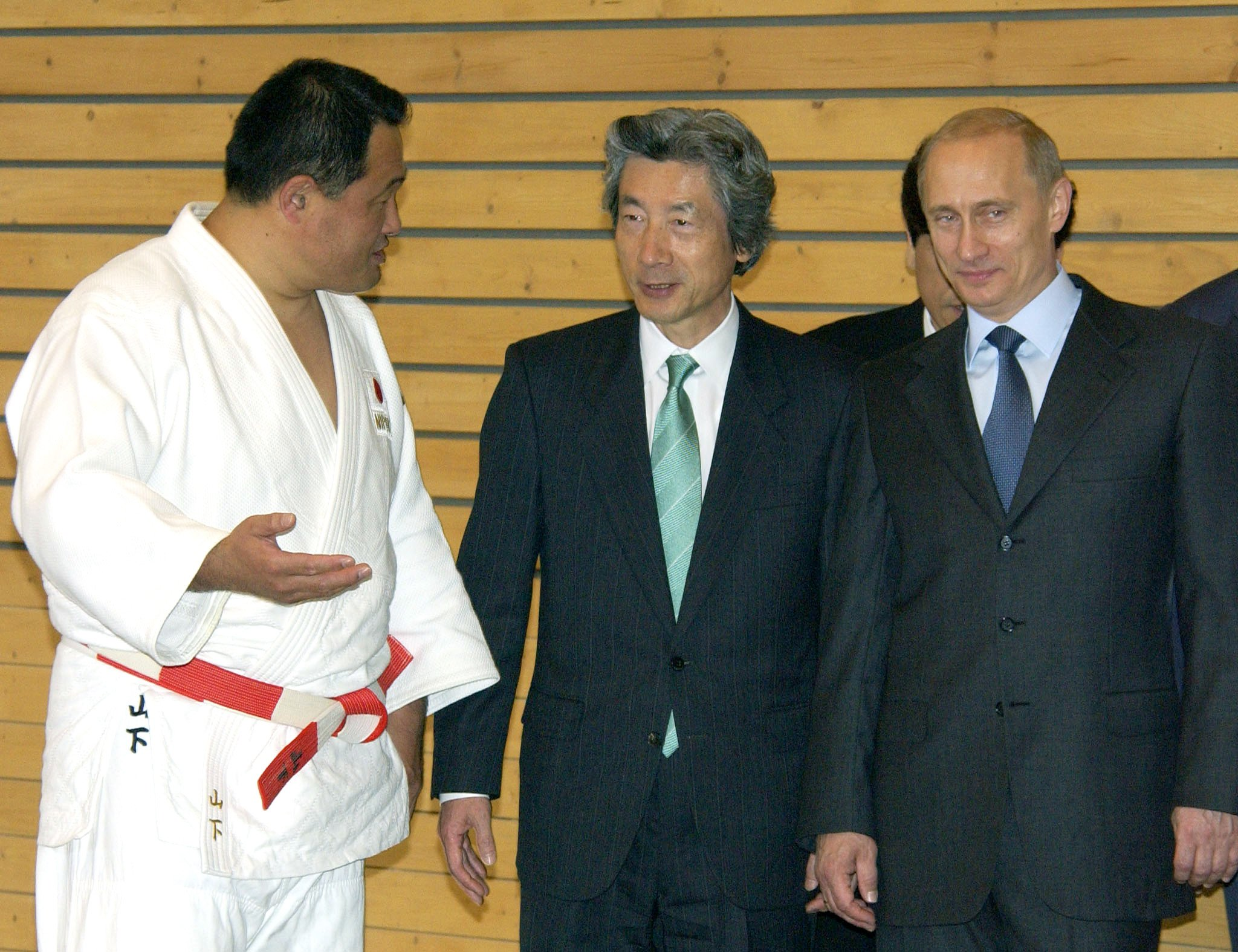 ST PETERSBURG. President Putin with Japanese Prime Minister Junichiro Koizumi (centre) and Olympic judo champion Yasuhiro Yamashita visiting a sports school.